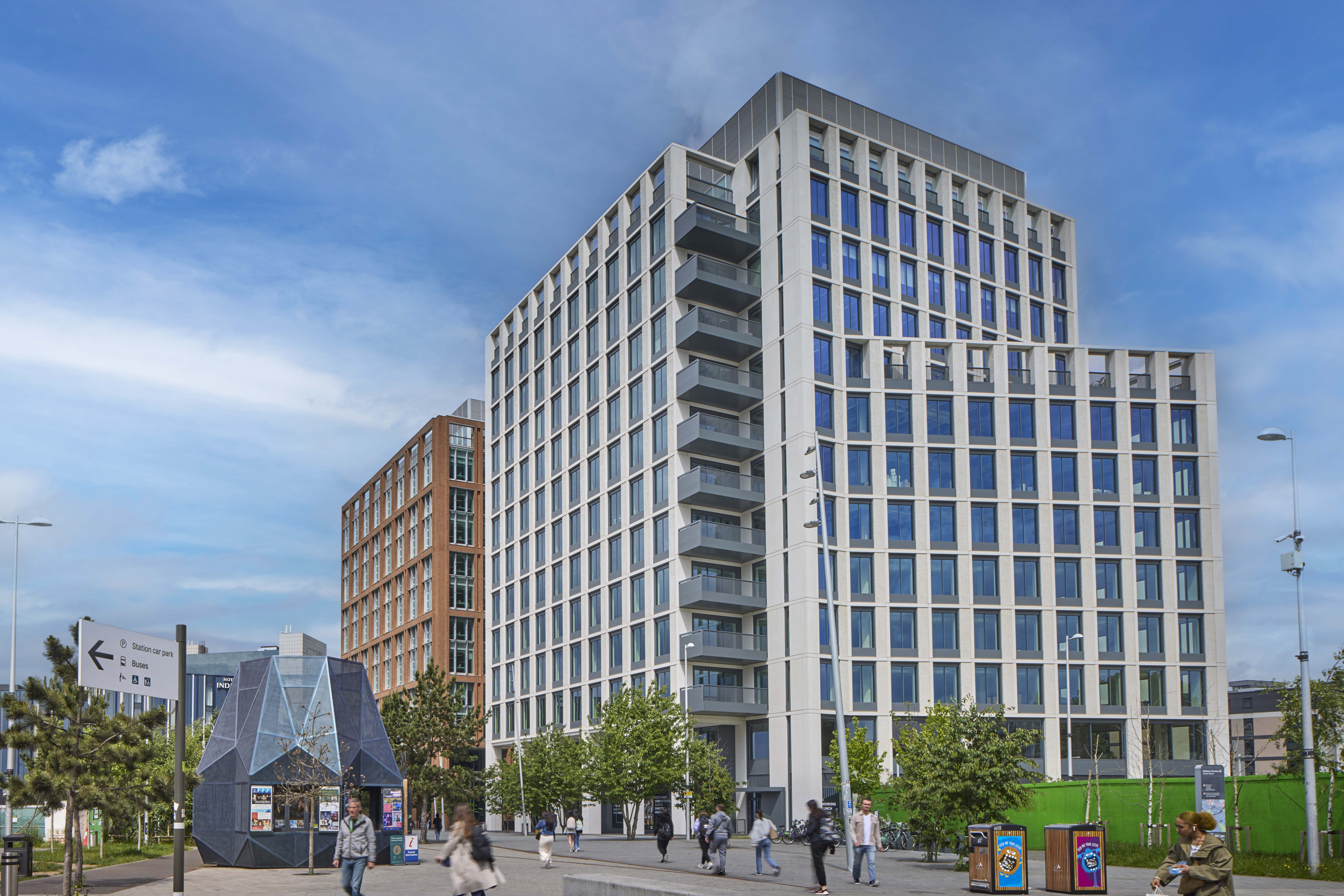 Two Friargate